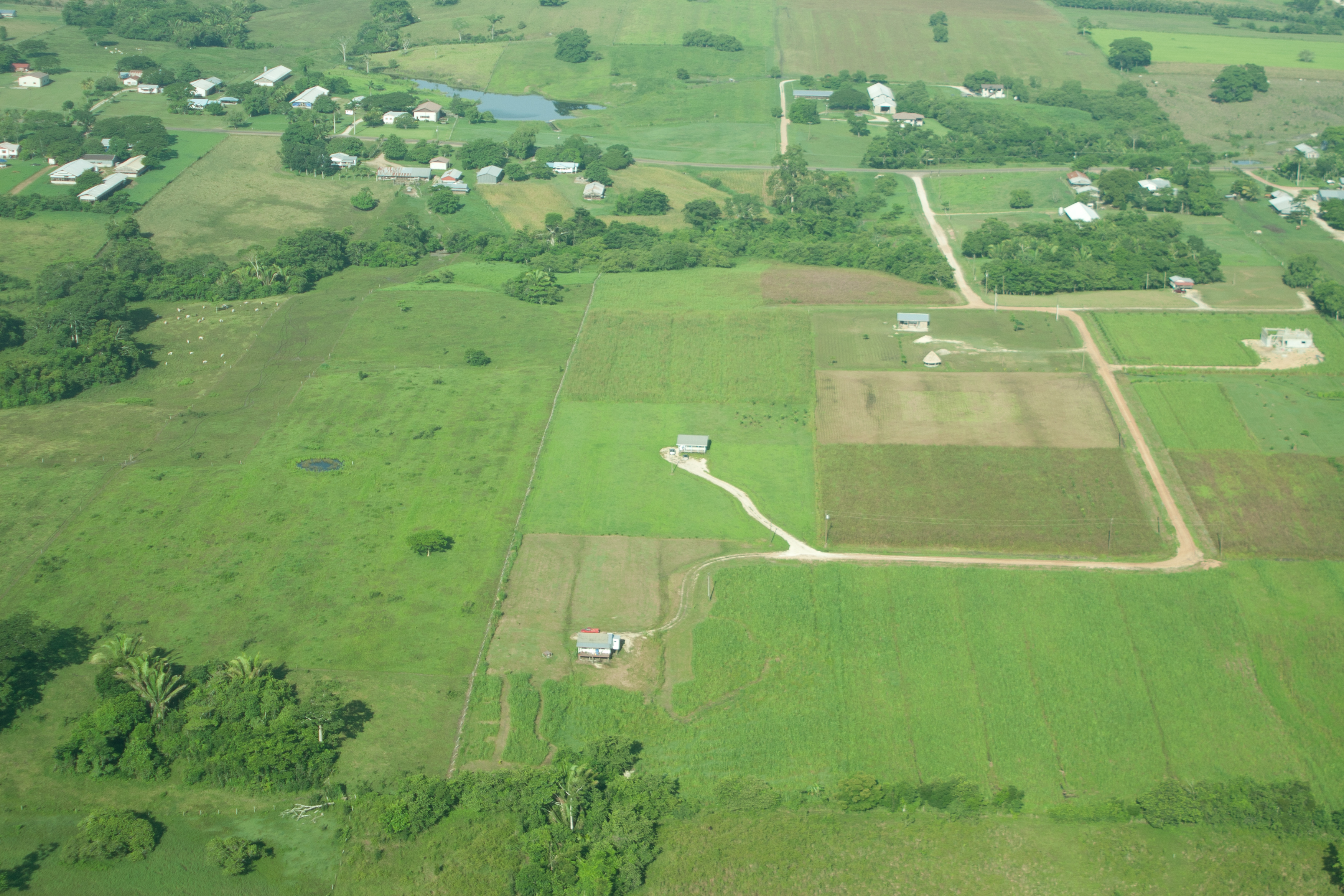 New Settlement Aerial